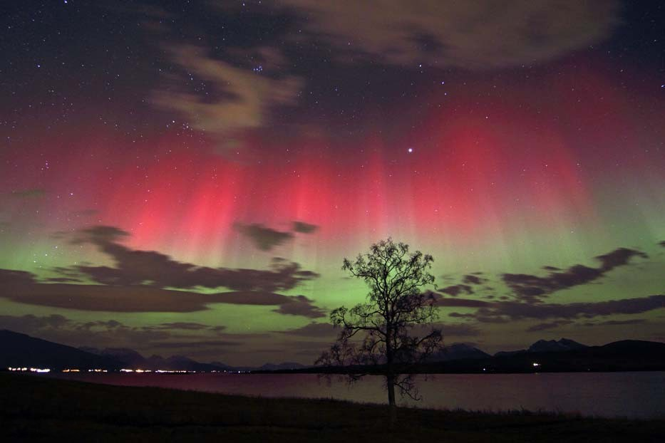 A red aurora of this magnitude is rare, and in this image it complements the green colour. Image taken at Hakoya island, just outside Tromsoe, Norway. October 25th, 2011 by photographer Frank Olsen